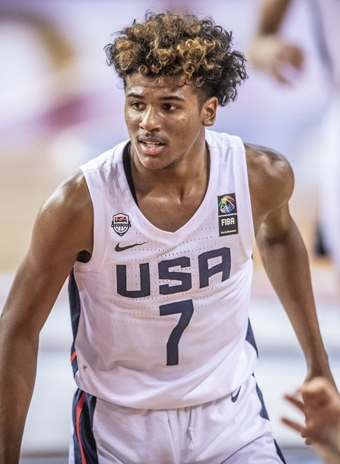 Jalen Green, USA Basketball